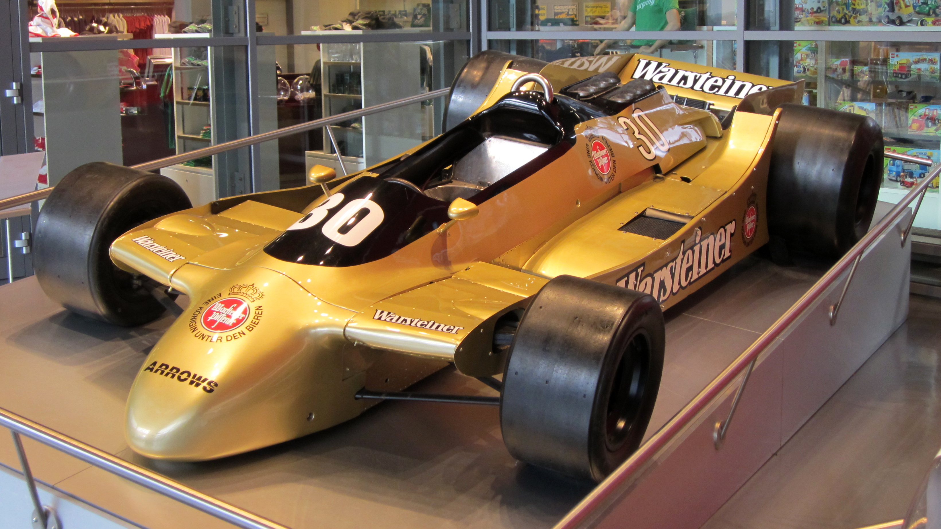 Arrows A2 in the ring°werk